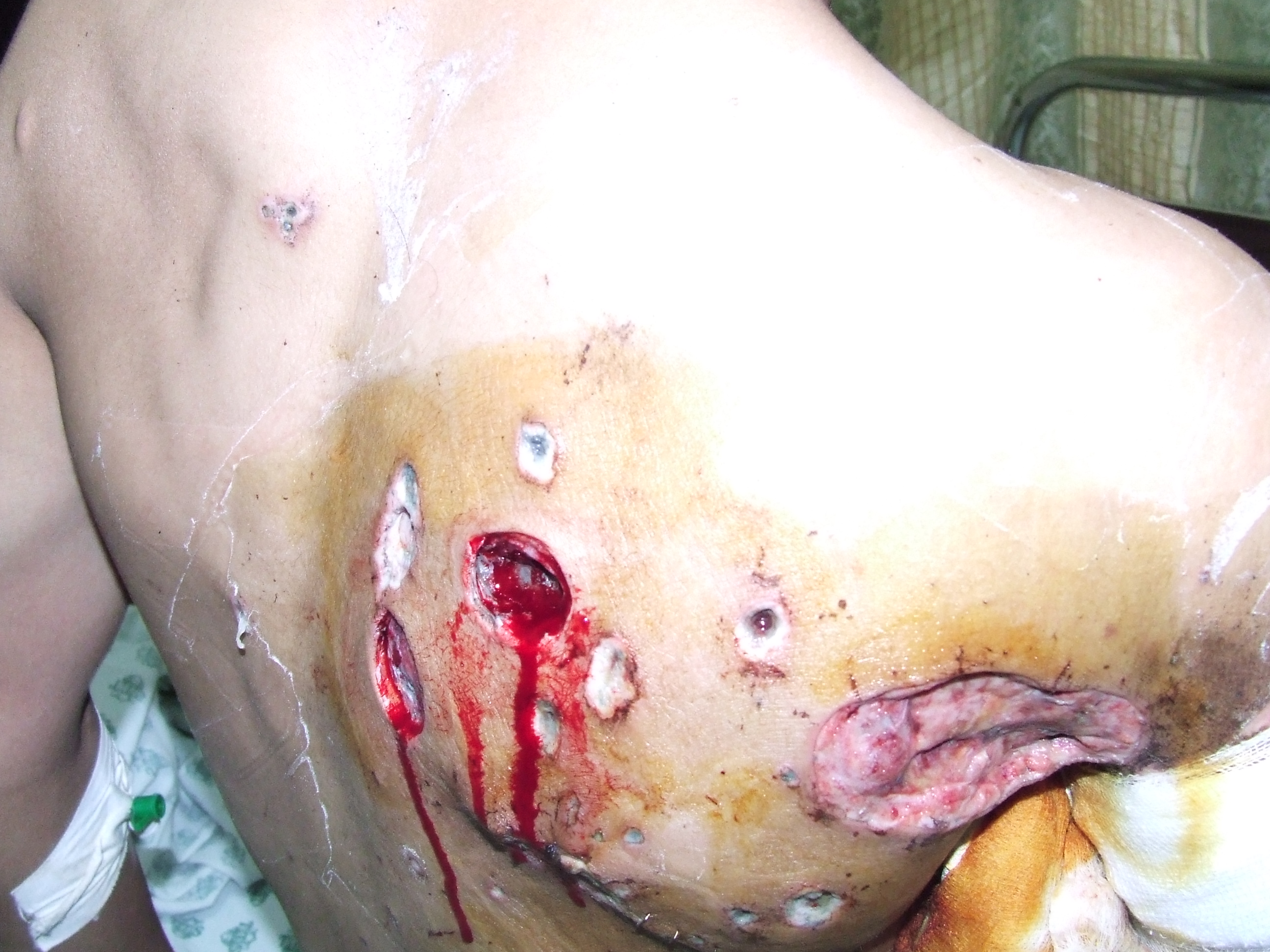 Back and shoulder of 15 year-old Ayman al-Najar at the Al-Nasser Hospital in Khan Younis. He sustained severe injuries from white phosphorus after Israeli bombing of the village Khoza'a. [1] [2] [3] [4] [5] [6]